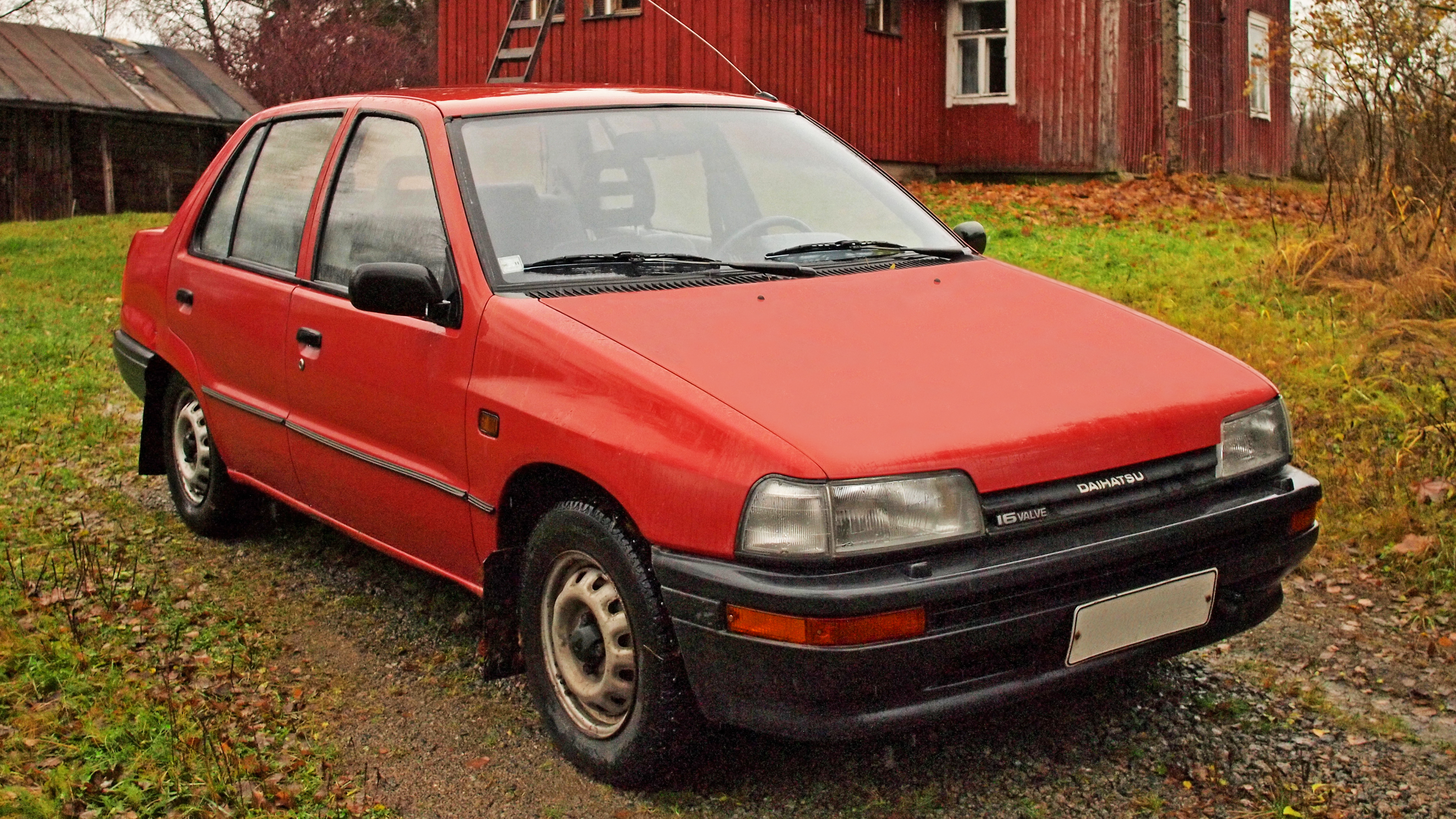 Daihatsu Charade SG 1991. Equipped with the 16-valve 1.3-litre engine. Photographed in Savitaipale, Finland.